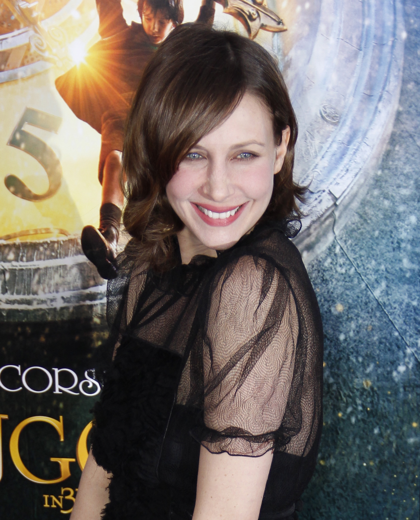 Vera Farmiga at the Hugo Premiere, In New York City 2011.